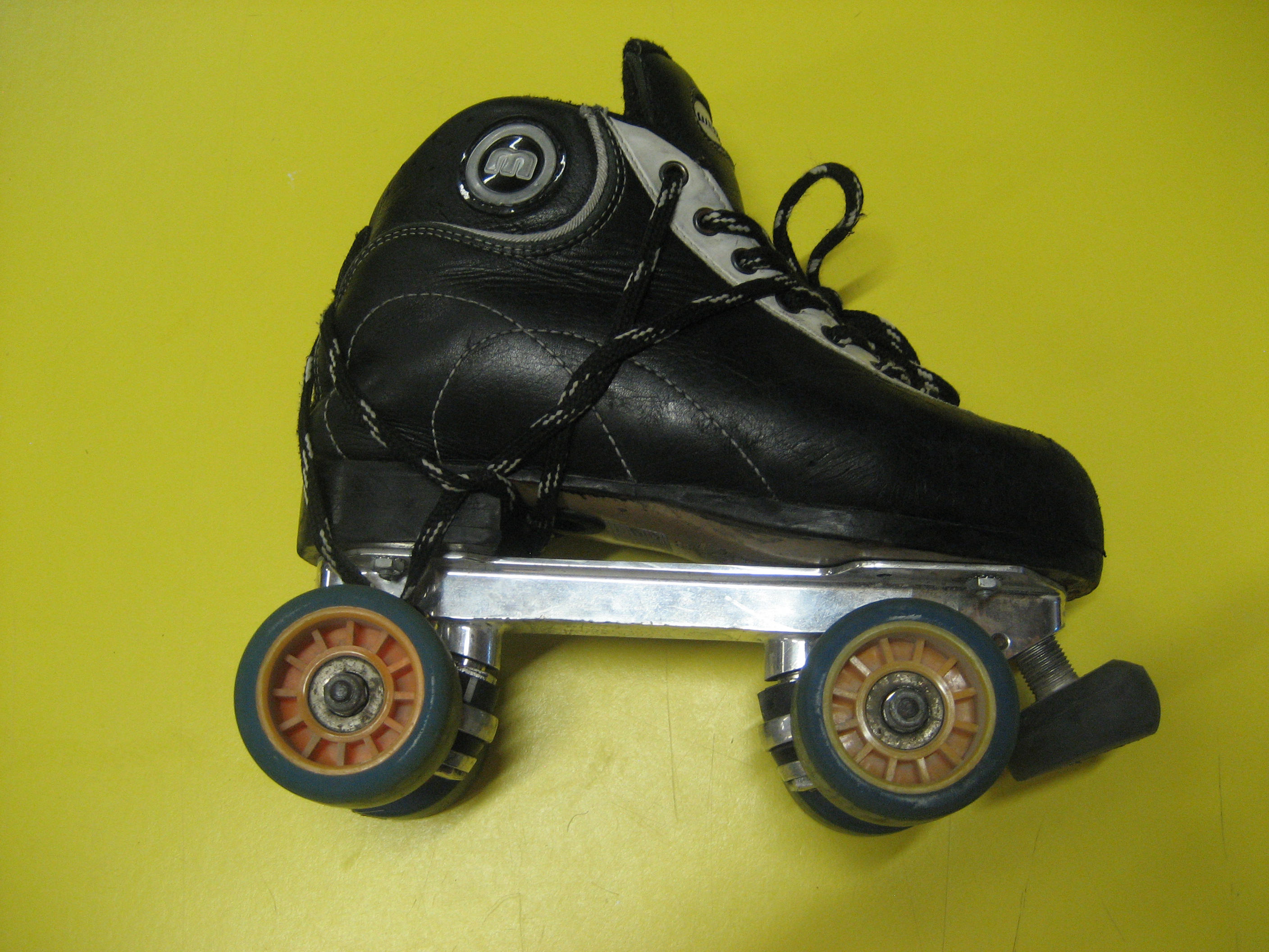 Roller hockey (Quad) skates must have two pairs of wheels, with a minimum diameter of 3 cm. Players are allowed to use brakes in the front of the skate, with a diameter or larger side not larger than 5 cm.